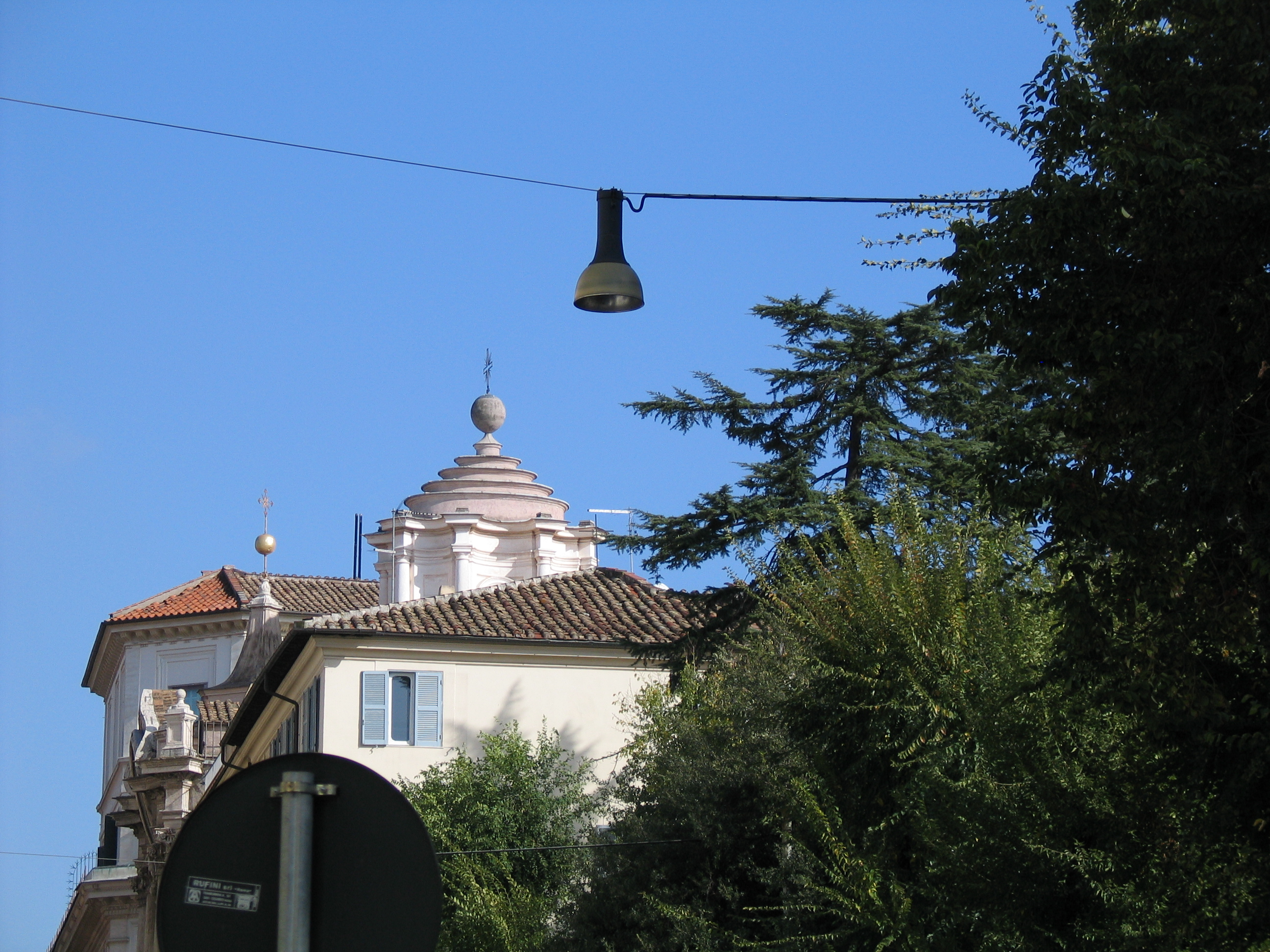 The dome of San Carlo alle Quattro Fontane, exterior view. Build by Francesco Borromini between 1638 and 1641.